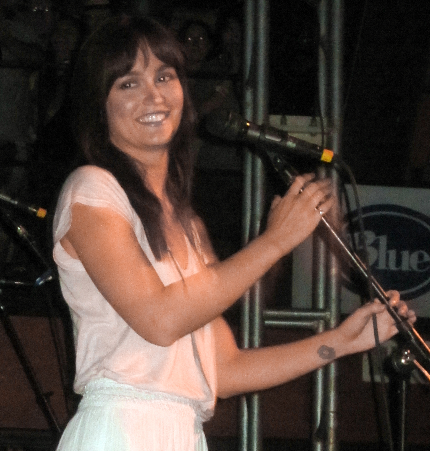 Leighton Meester performing at the Troubadour in Hollywood, CA